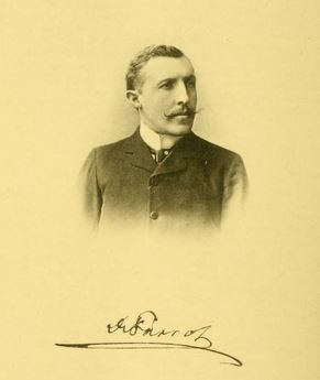 Carl Philip August Parrot (1867-1911)